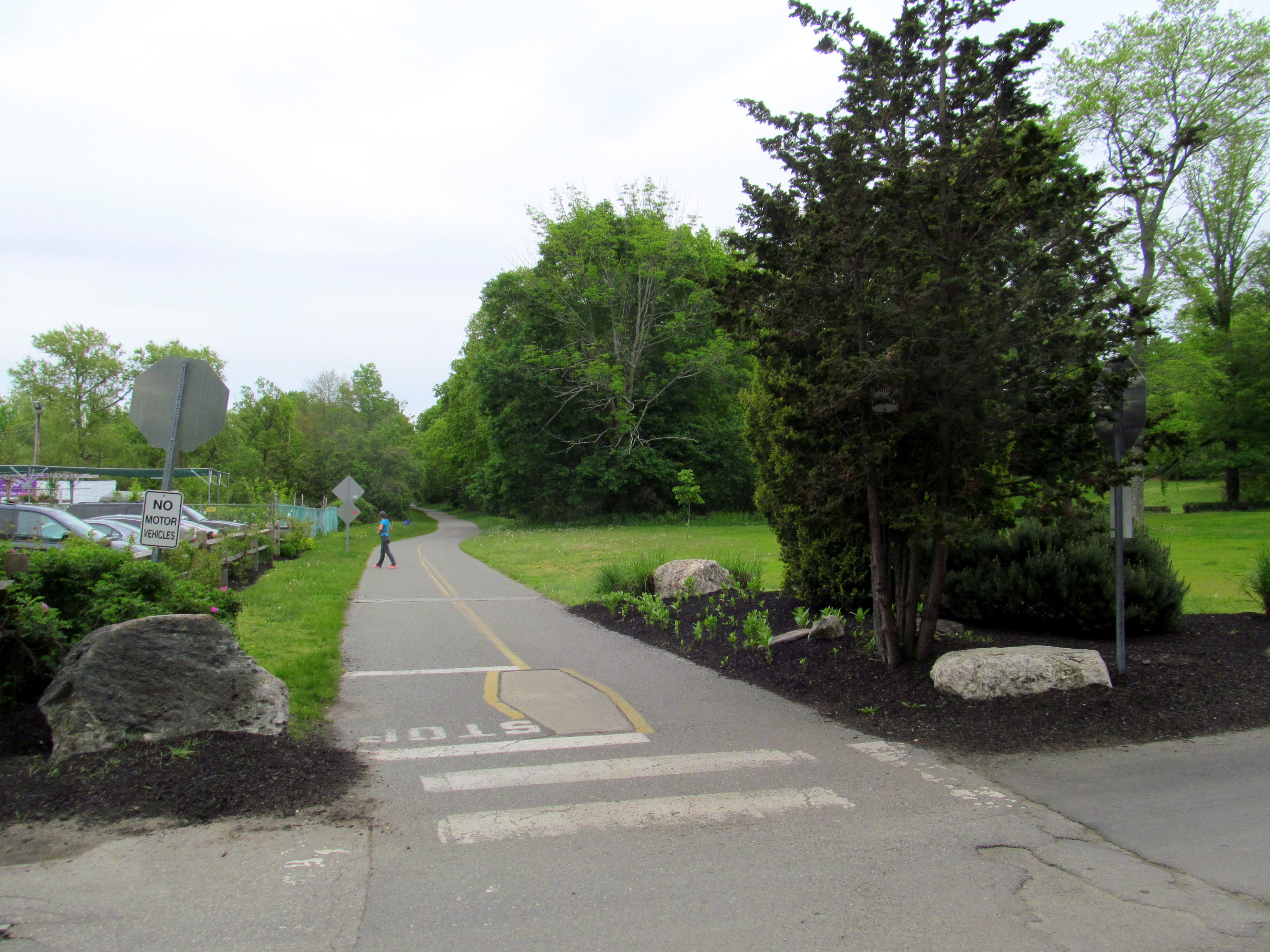 The former site of Munroes station (now along the Minuteman Bikeway) in May 2017. The station building was located near the grassy area on the right side of the bikeway.